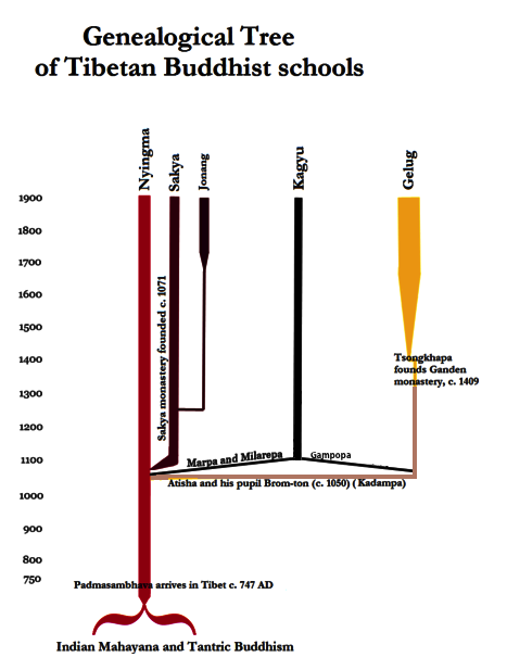 (adapted with modifications from Genealogical Tree of Tibetan Buddhist schools, source: Tibet's great yogi Milarepa, by W. Y. Evans-Wentz (1928), page 14)